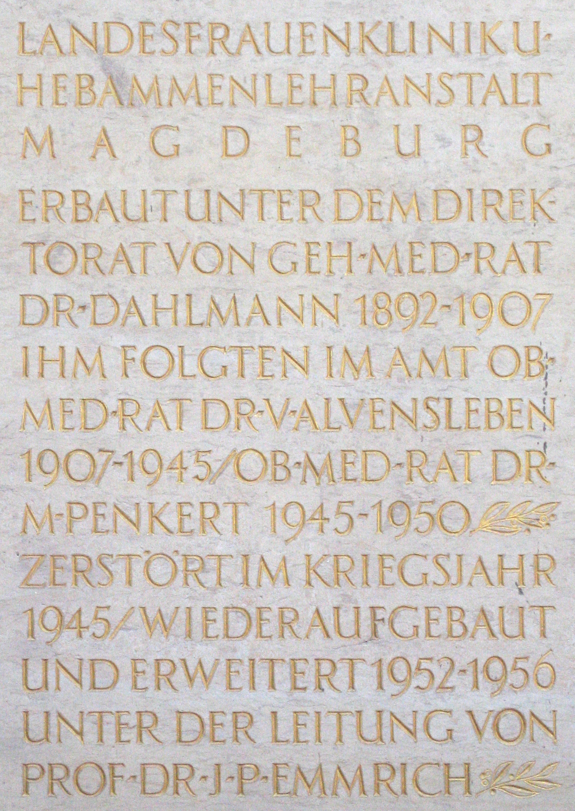 History of the Landesfrauenklinik Magdeburg